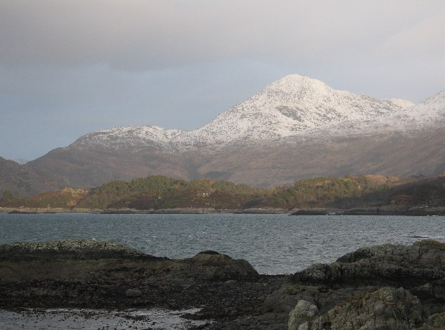 An Stac from the mouth of Loch Ailort. The view is looking along the coast of Loch Ailort. The wooded area is part of the policies of Roshven House, which is out of sight in the bay to the left.